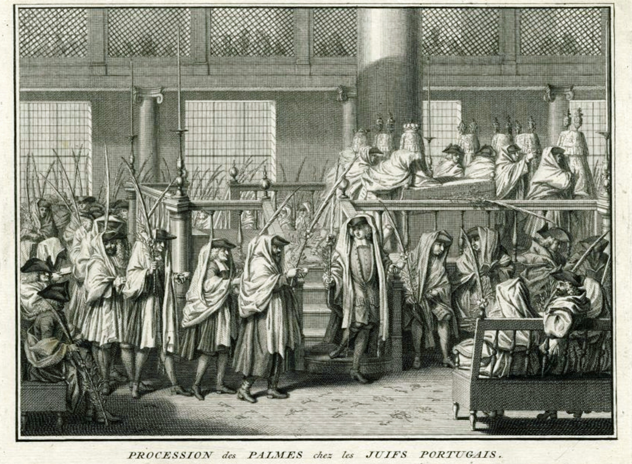 Sephardic Jews Observe Hoshanah Rabah, engraving from Cérémonies et coutumes religieuses de tous les peuples du monde (1723-1743)